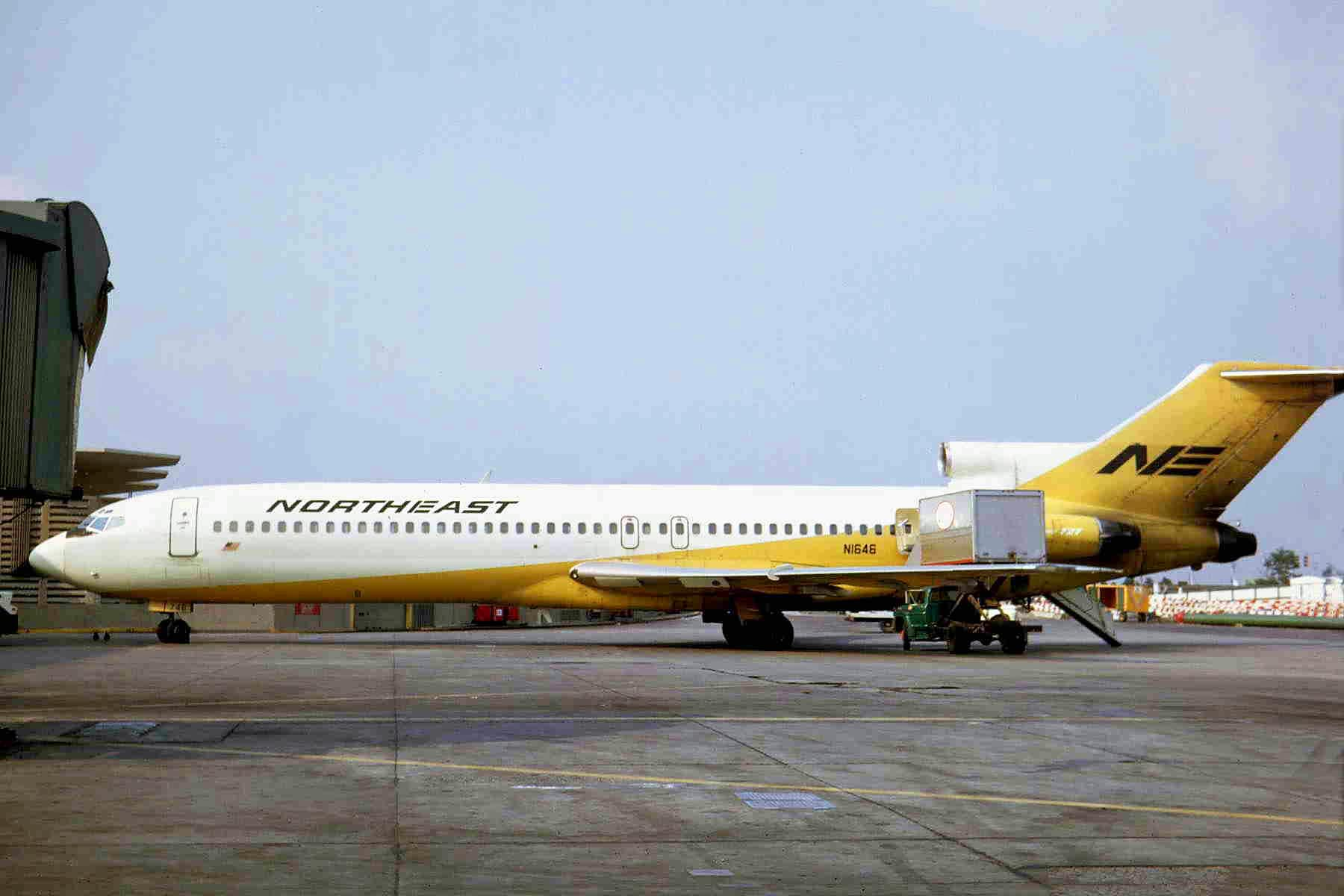 A picture of an airplane